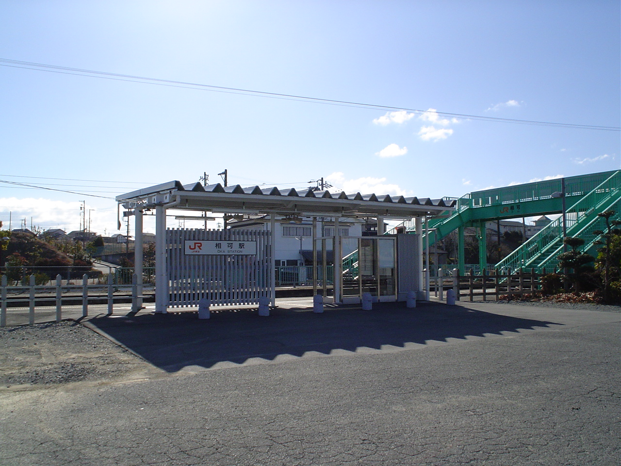 Ōka Station in Mie pref, japan